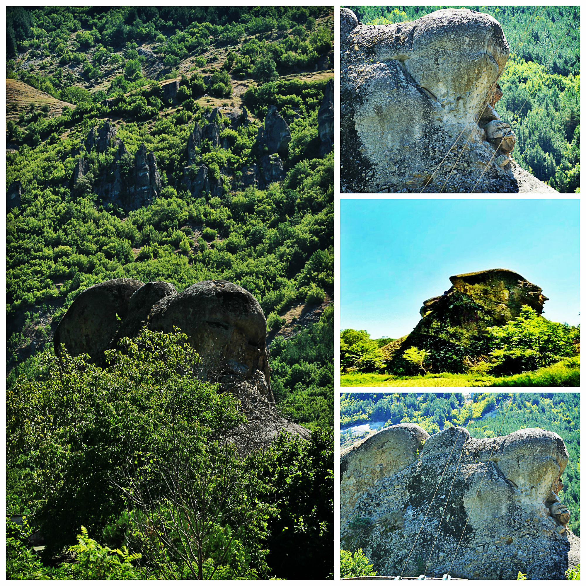 Kupena MestaRiver Bulgaria